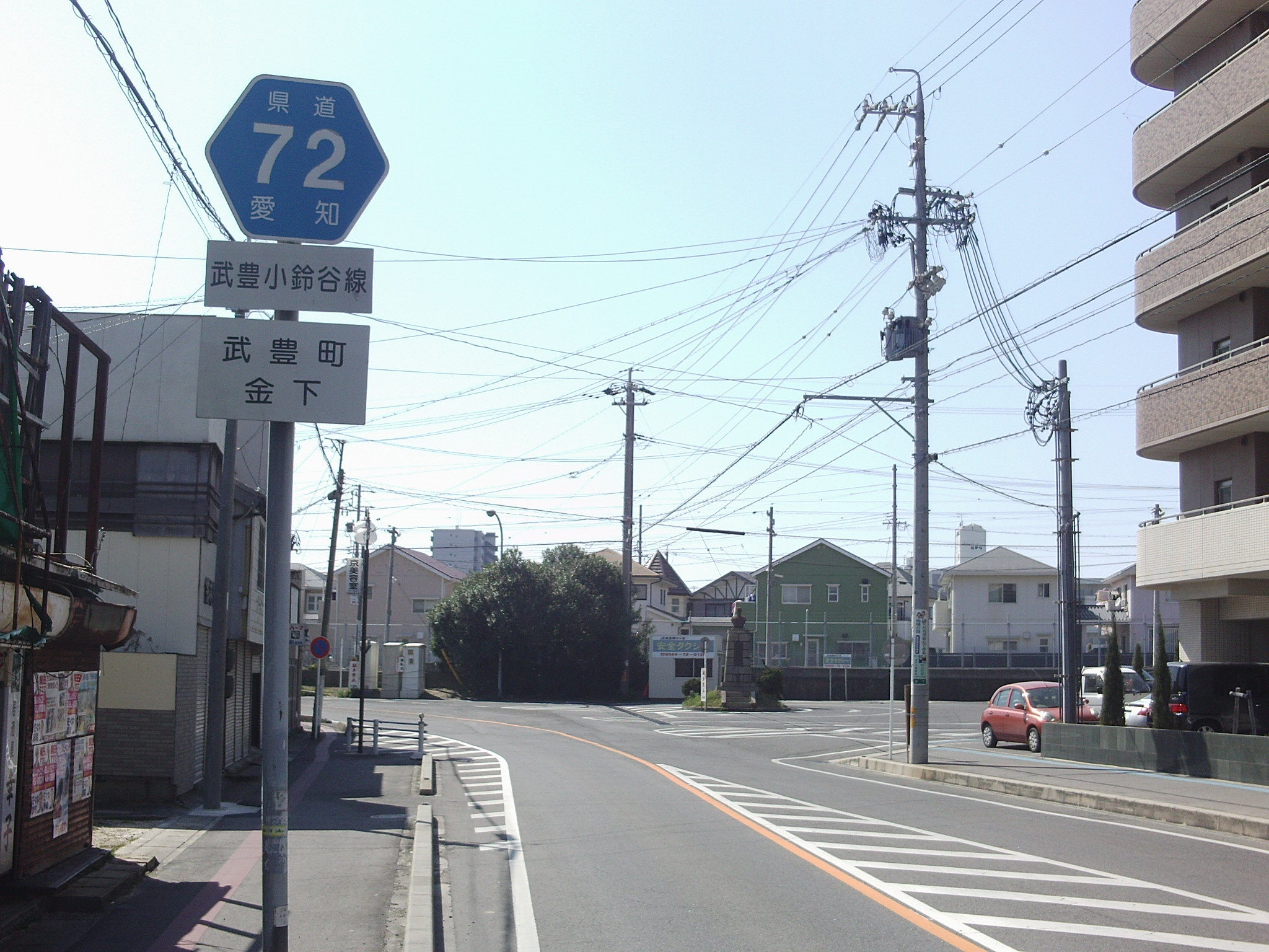 Starting point of Aichi prefectural road No.72 in Kanage, Taketoyo-cho, Chita-gun, Aichi.